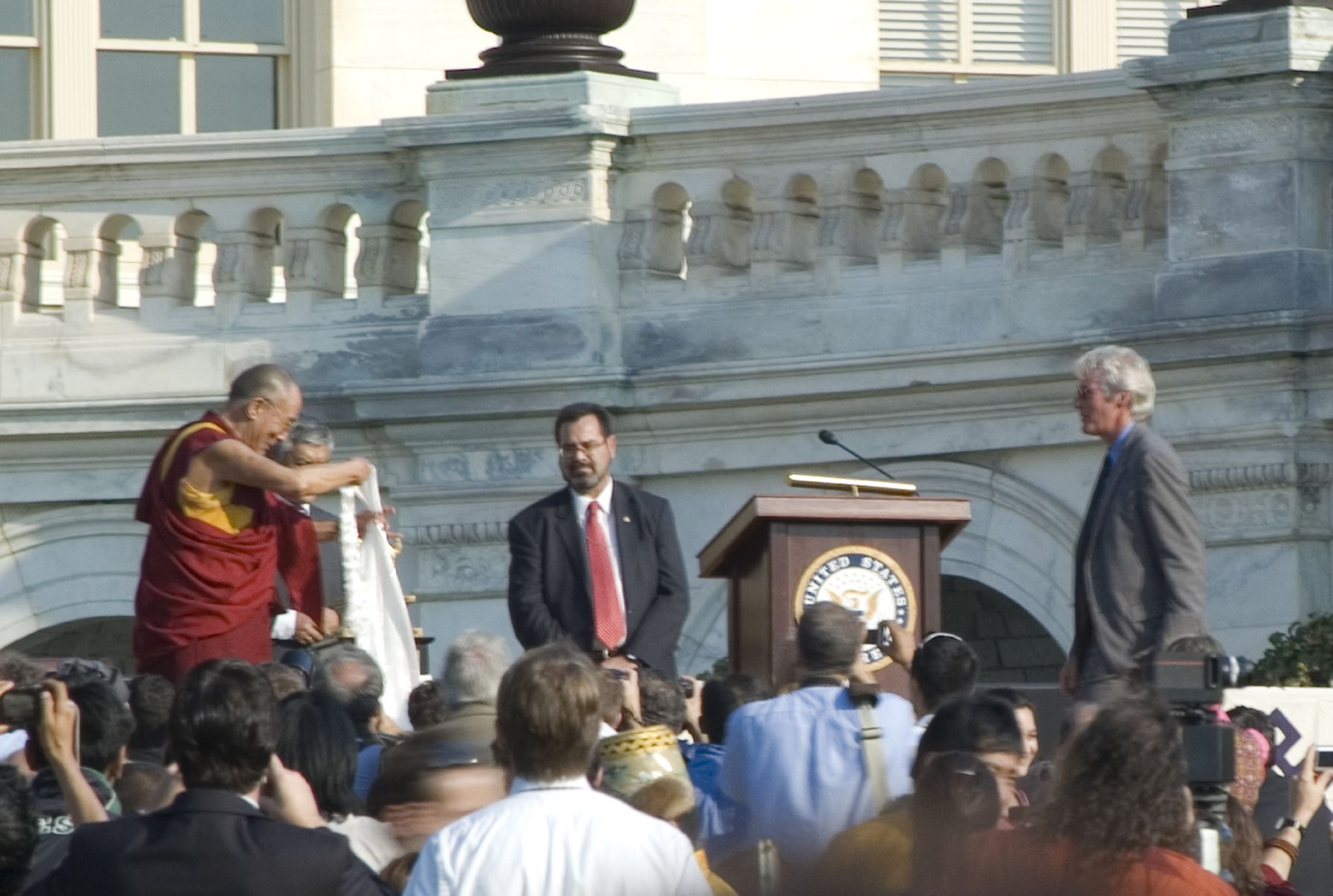 Tenzin Gyatso 14th Dalai Lama with Richard Gere at the United States Capitol